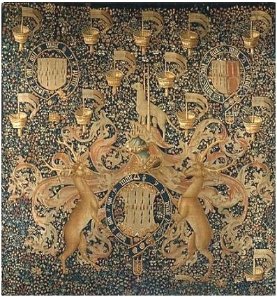 Tapestry, post 1497, showing heraldry of John Dynham, 1st Baron Dynham (d.1501). Very faded. Metropolitan Museum, New York, Cloisters Collection, ref: 60.127.1